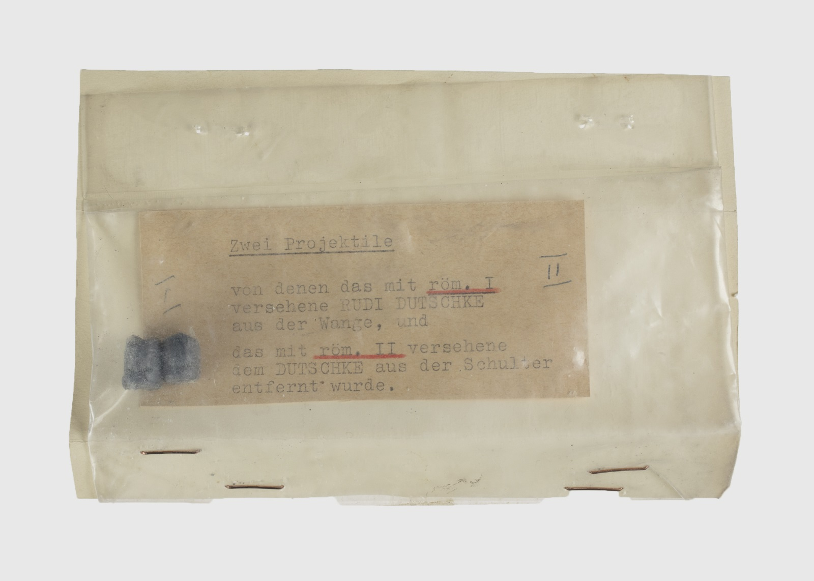 two bullets that hit Rudi Dutschke